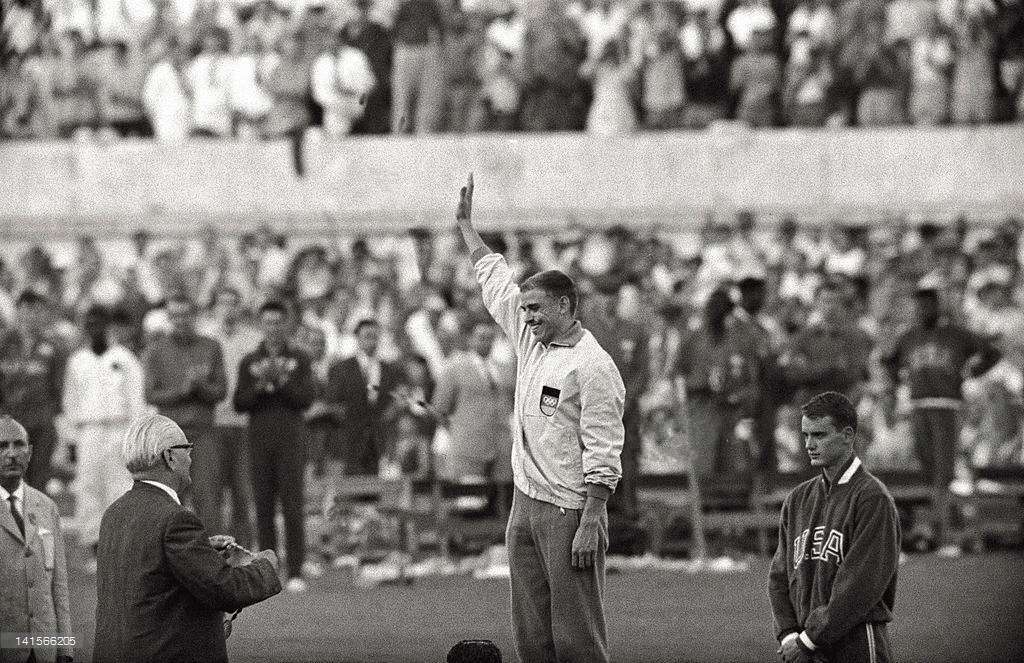 Armin Hary and Dave Sime at the 1960 Olympics